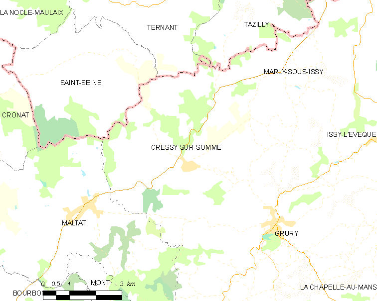 Map of French municipality